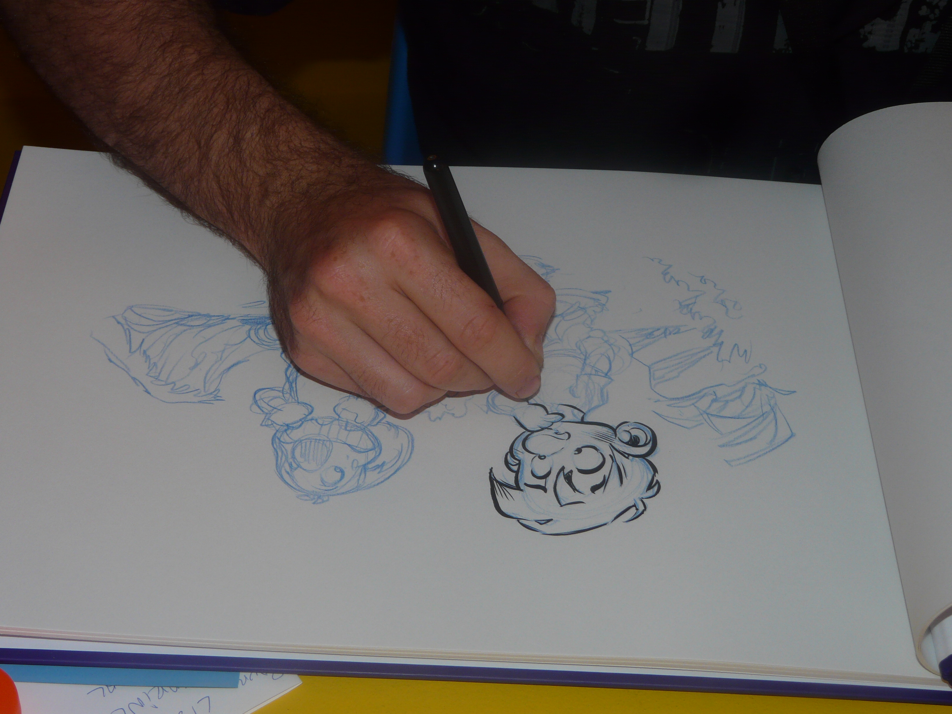 Photographs taken during the Comic Festival "O tour de la bulle" of Montpellier, France